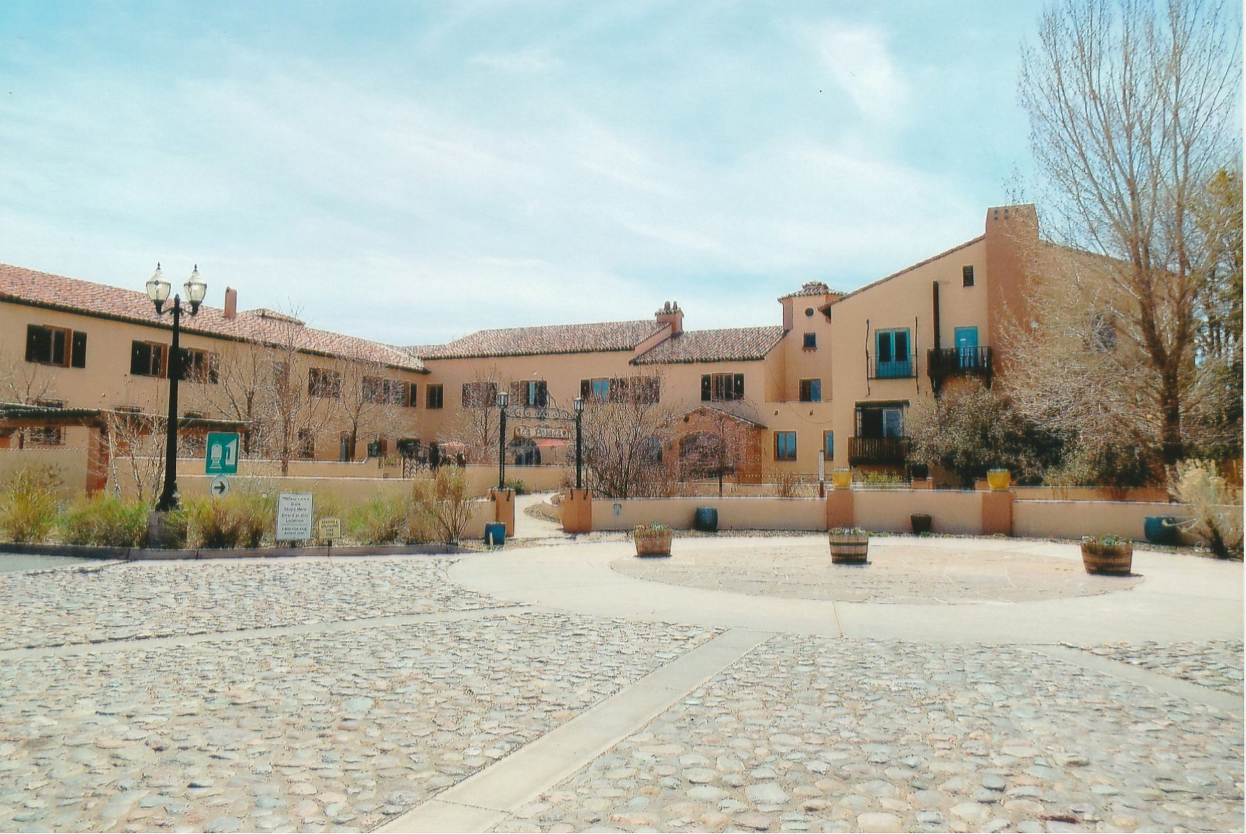 The La Posada Hotel was built in 1920 by Fred Harvey. The hotel is located at 303 East 2nd. Street, Jerome, Az.. It was listed in the National Register of Historic Places March 31, 1992, Ref. #92000256.